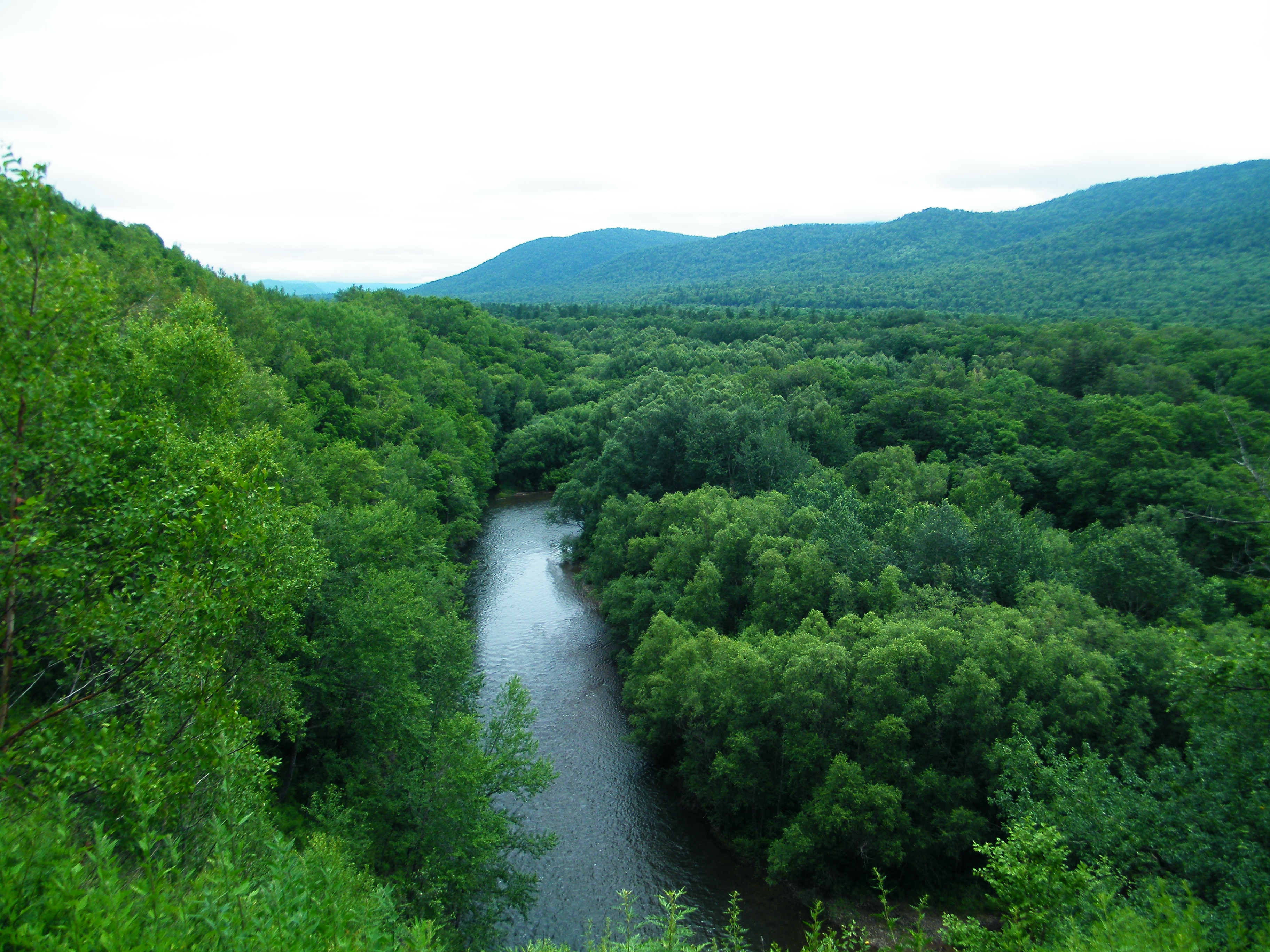 Pavlovka River in Chuguyevsky District, Primorsky Krai, Russia